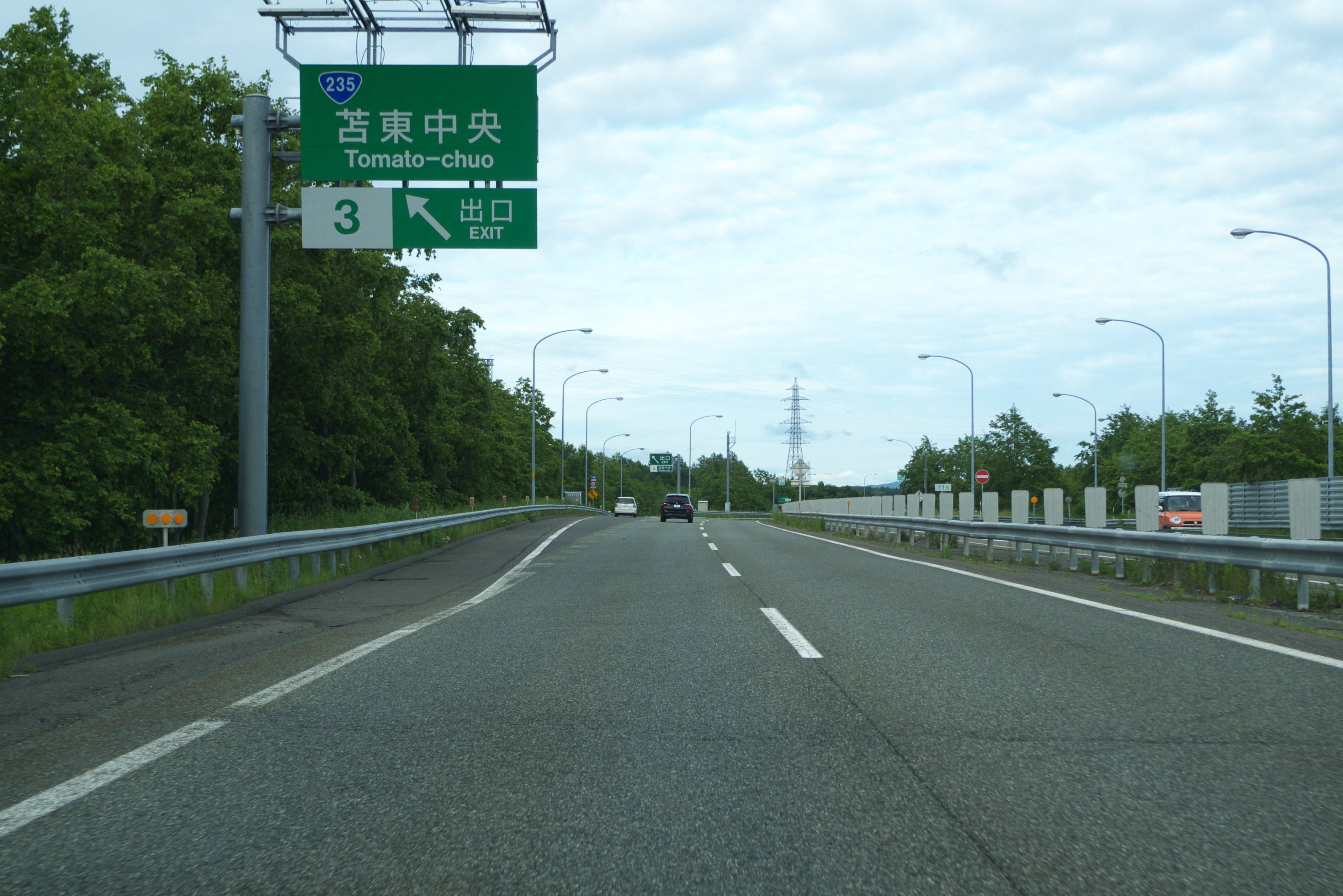 Tomato-chuo Interchange on the Hidaka Expressway in Tomakomai City, Hokkaido, Japan